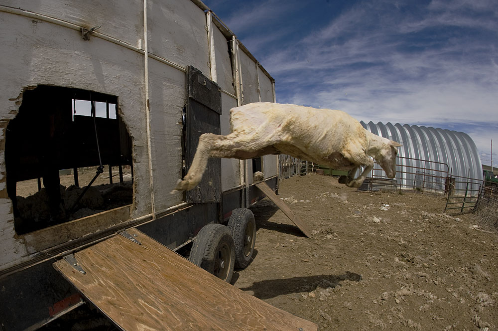 Leaping Targhee sheep after having been sheared. Photograph from eastern Wyoming